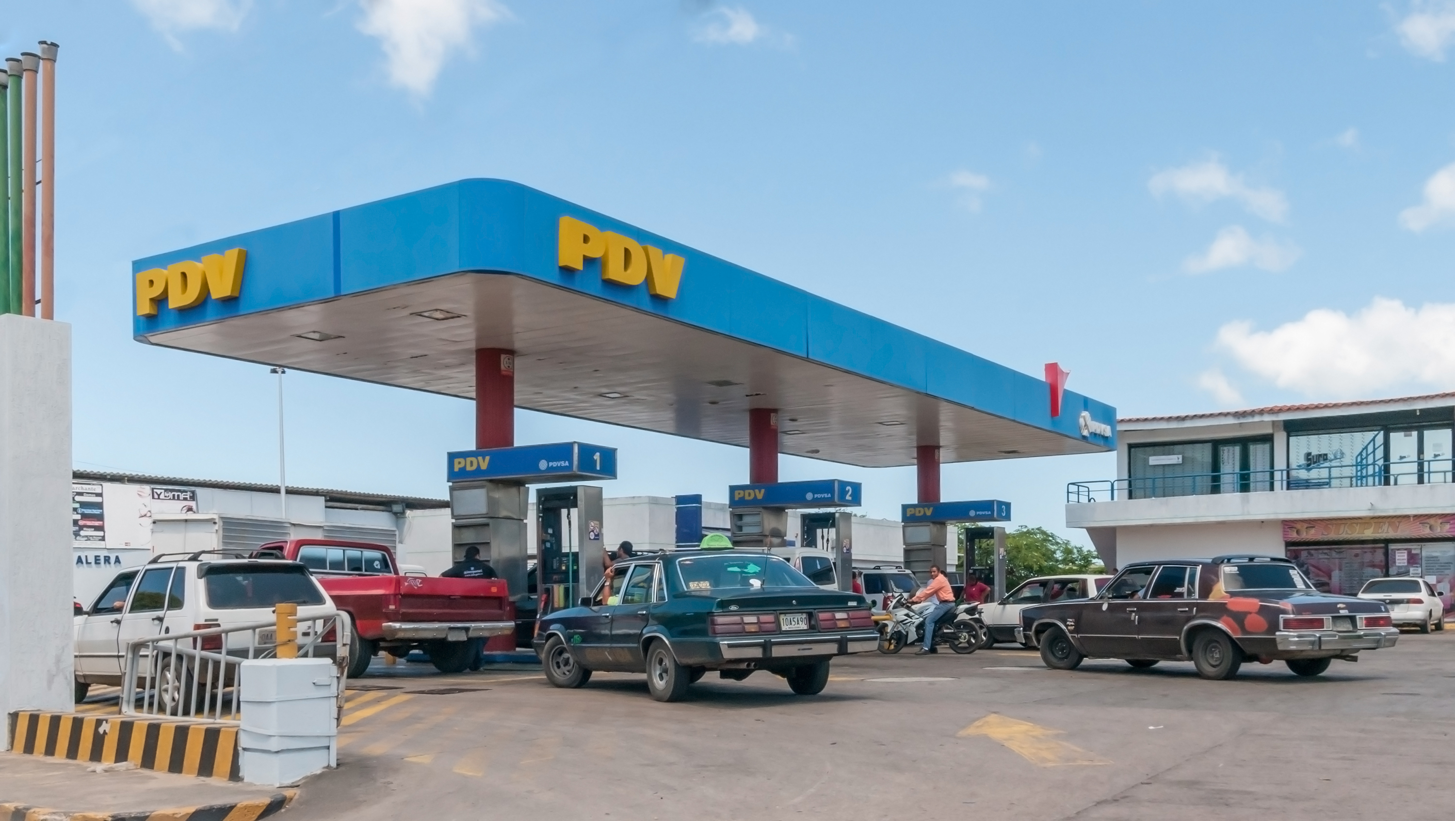 Filling station of PDV (subsidiary of Petroleos de Venezuela), in Margarita Island, Nueva Esparta State, Venezuela